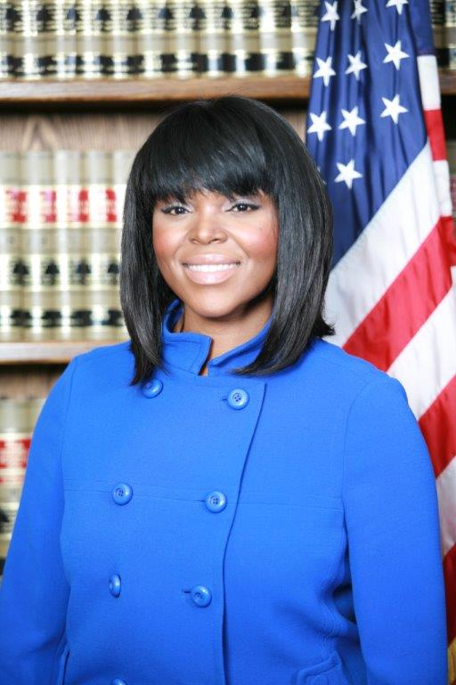 Aja Brown official pic